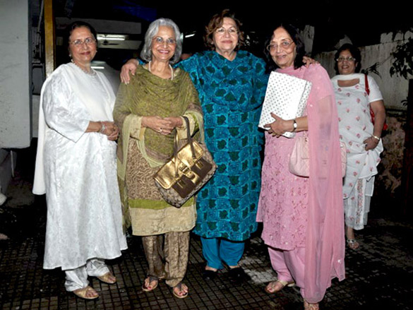 Nanda, Waheeda, Helen and Sadhana watch 'We Are Family' at Ketnav, Mumbai